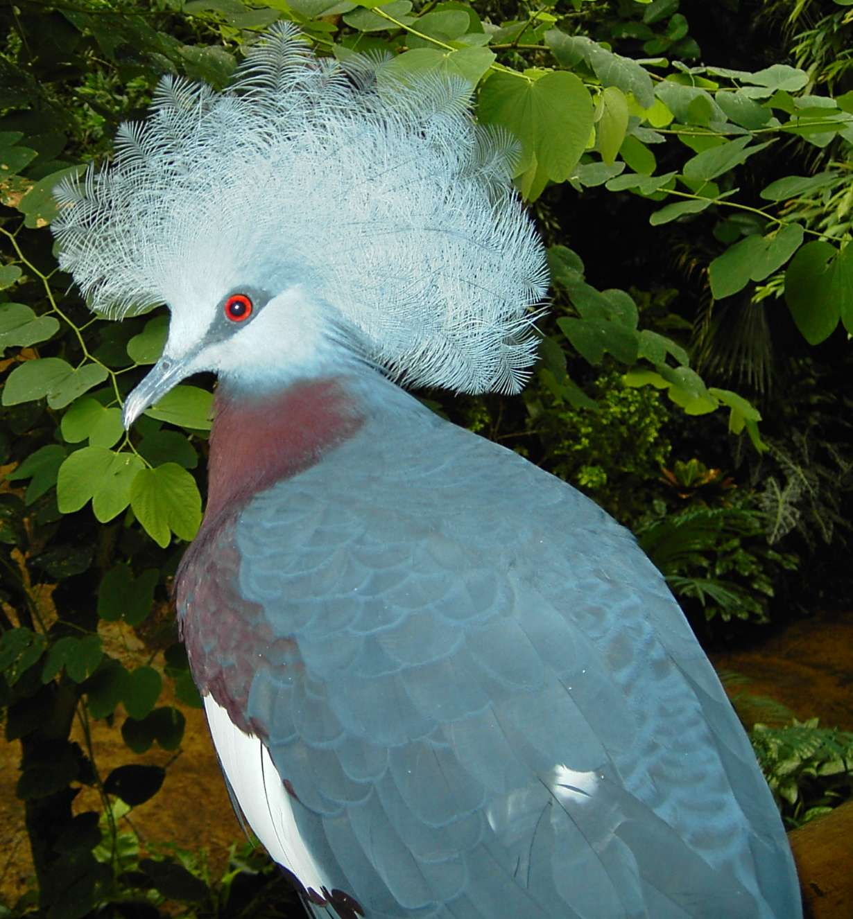 Goura scheepmakeri (Southern Crowned Pigeon) in the zoo of Cologne, Germany. Remark: The Southern Crowned Pigeon was split into two species. This looks like Sclater's crowned Pigeon (Goura sclaterii).